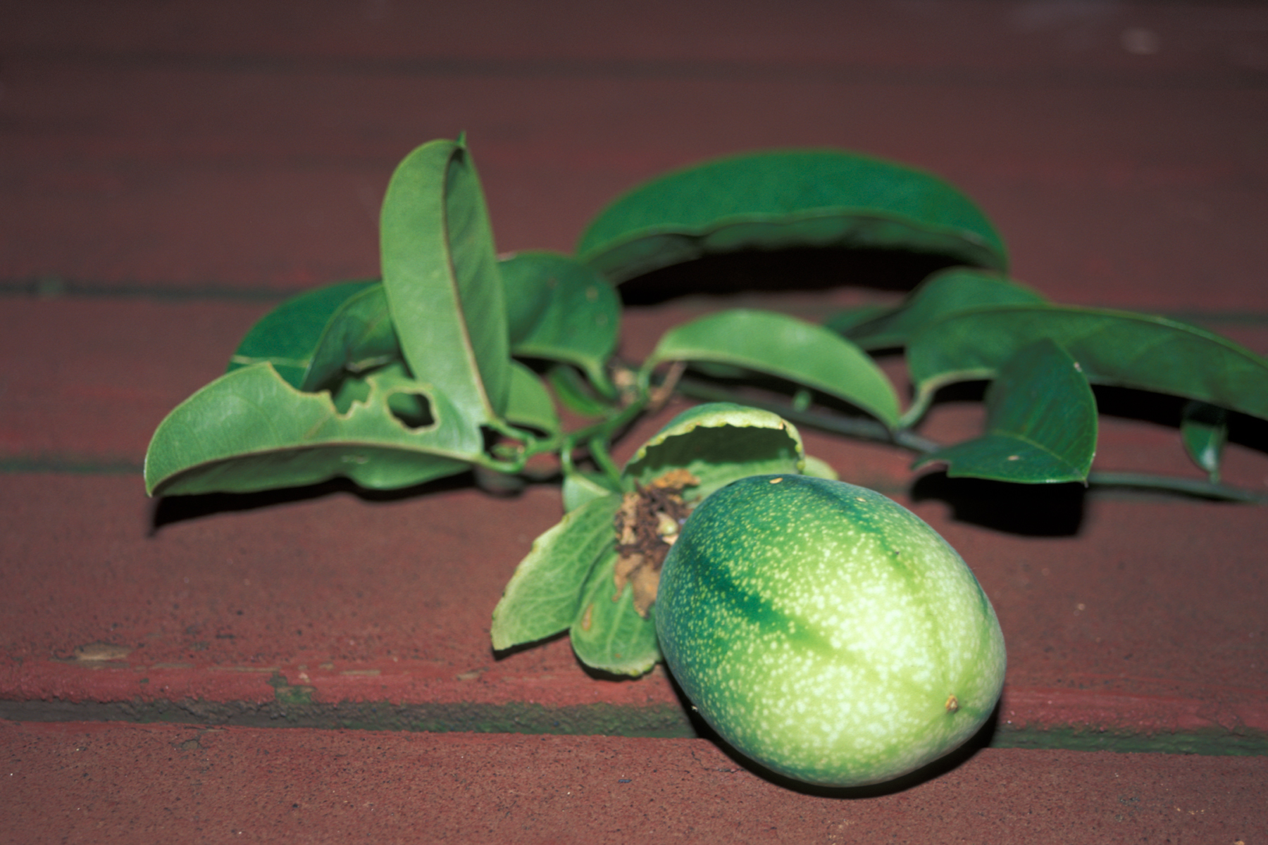 Passiflora laurifolia (with fruit). Location: Maui, Keanae